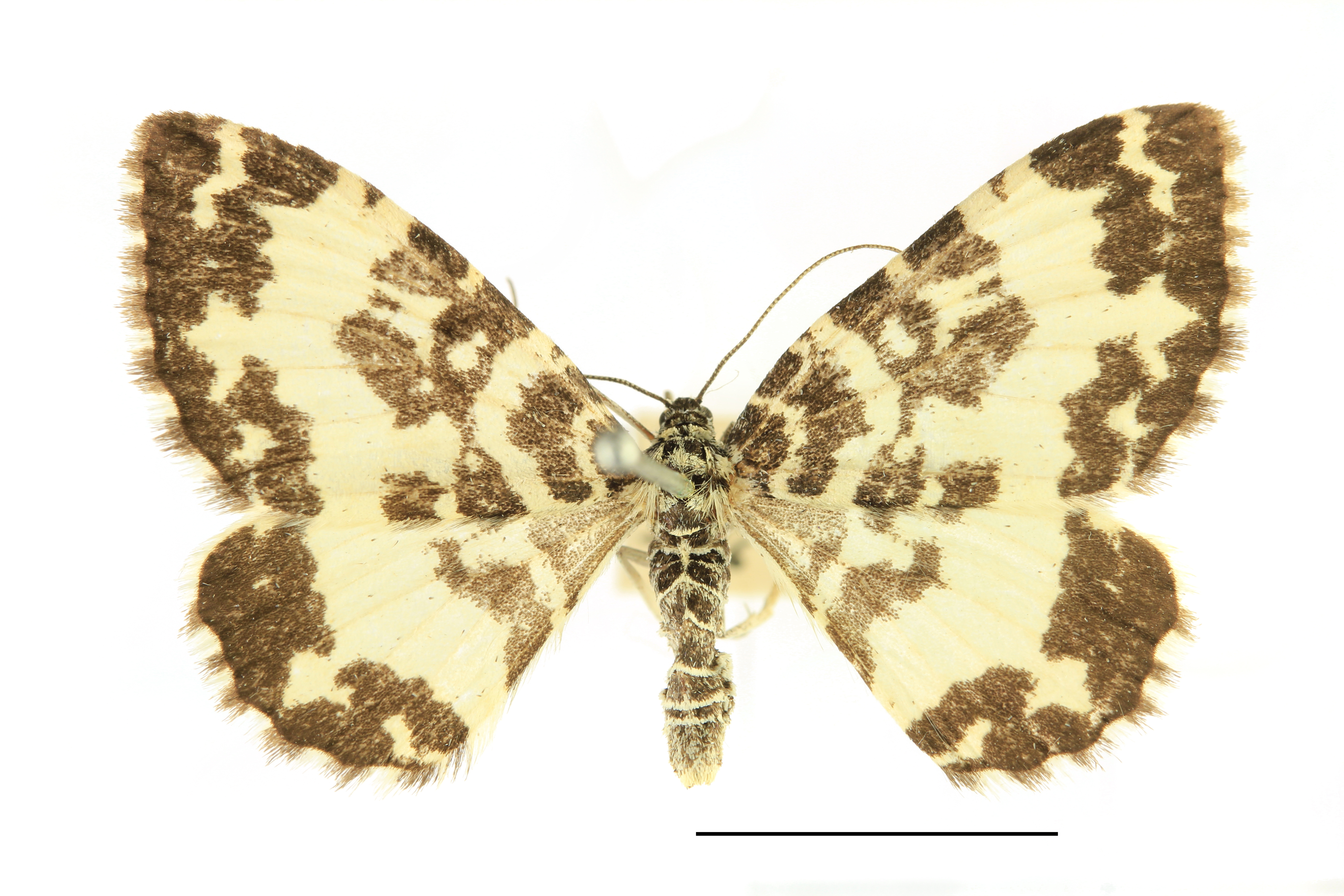 Rheumaptera hastata, insect collections SLU, Uppsala